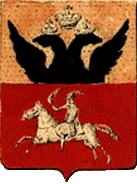 Coat of Arms of Mahiloǔ Governorate